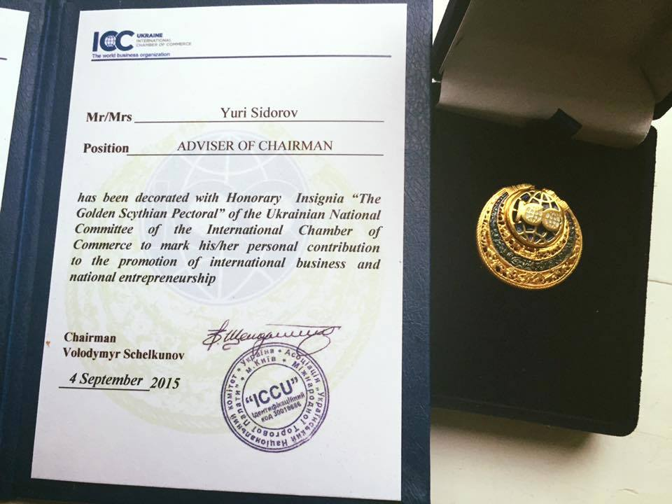 Golden_Scythian_Pectoral